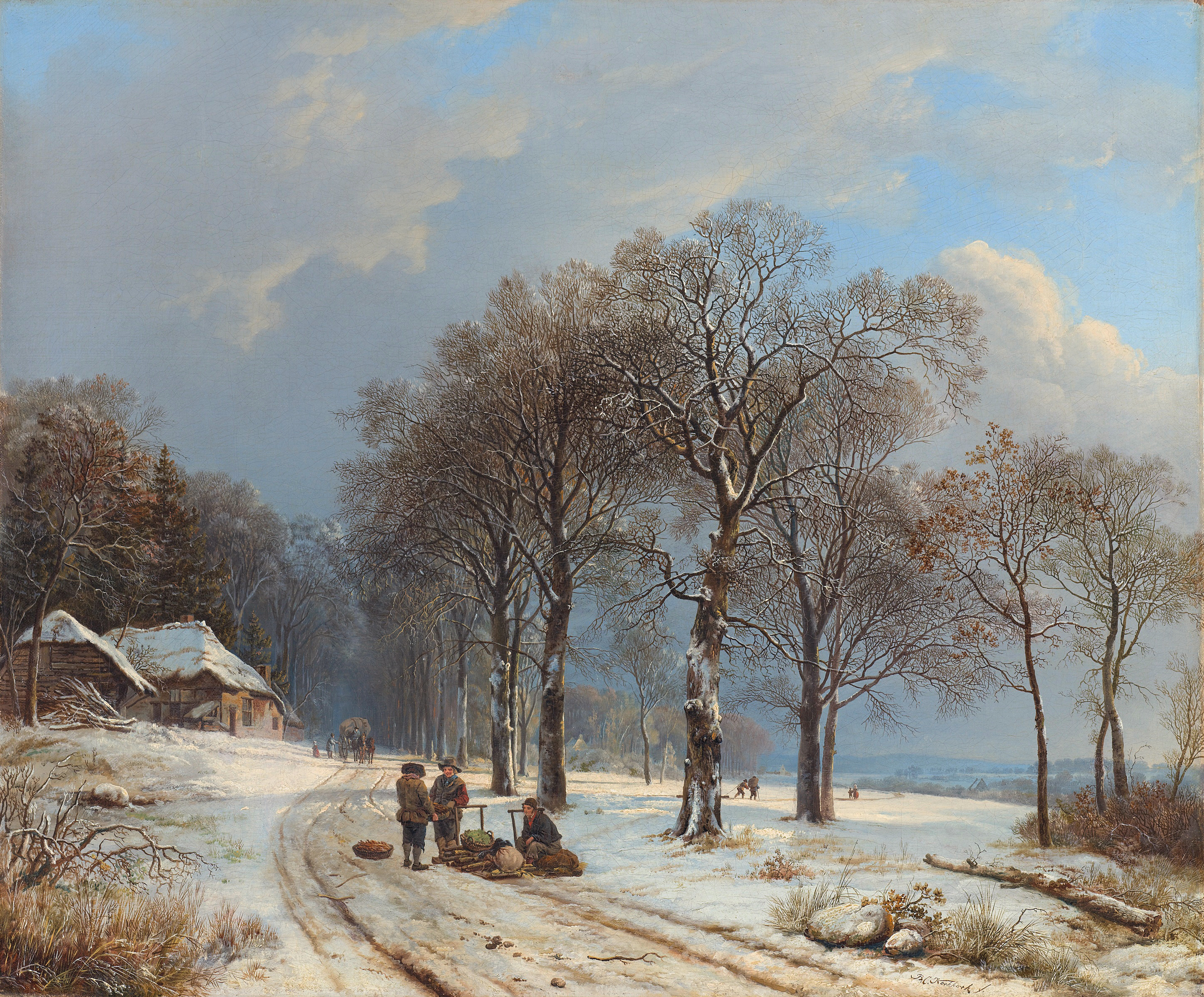 This painting depicts people chatting on a countryside road.